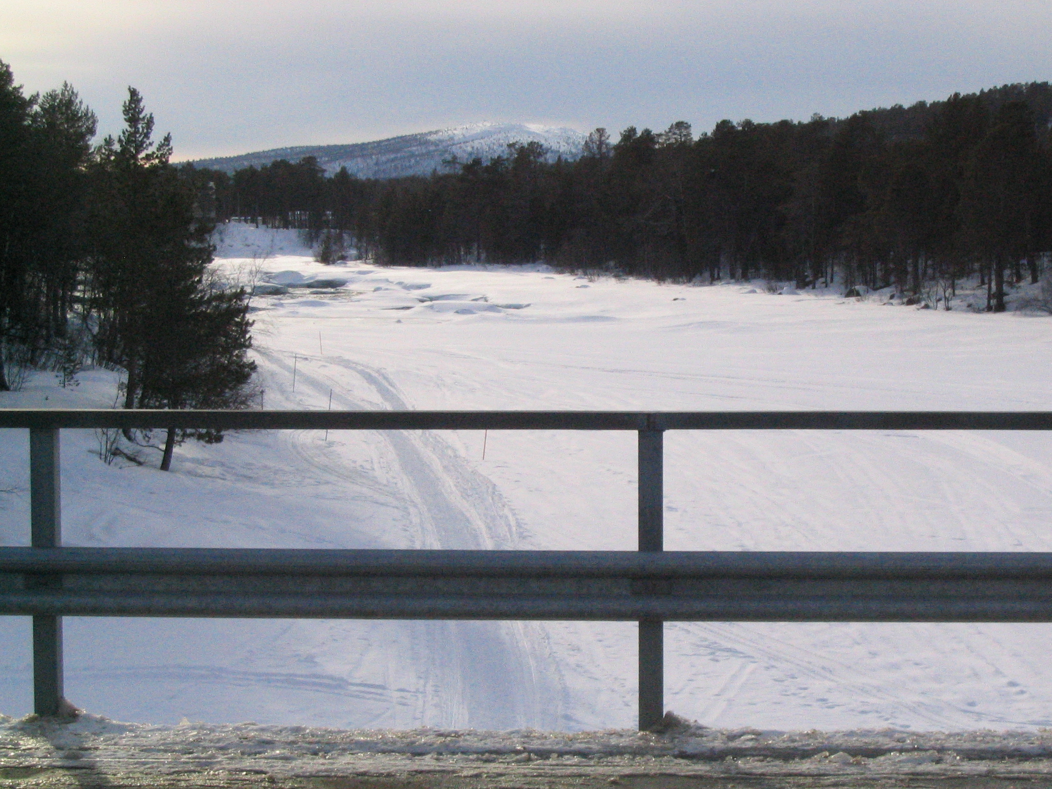 River Juutuanjoki in March, Inari, Finland.